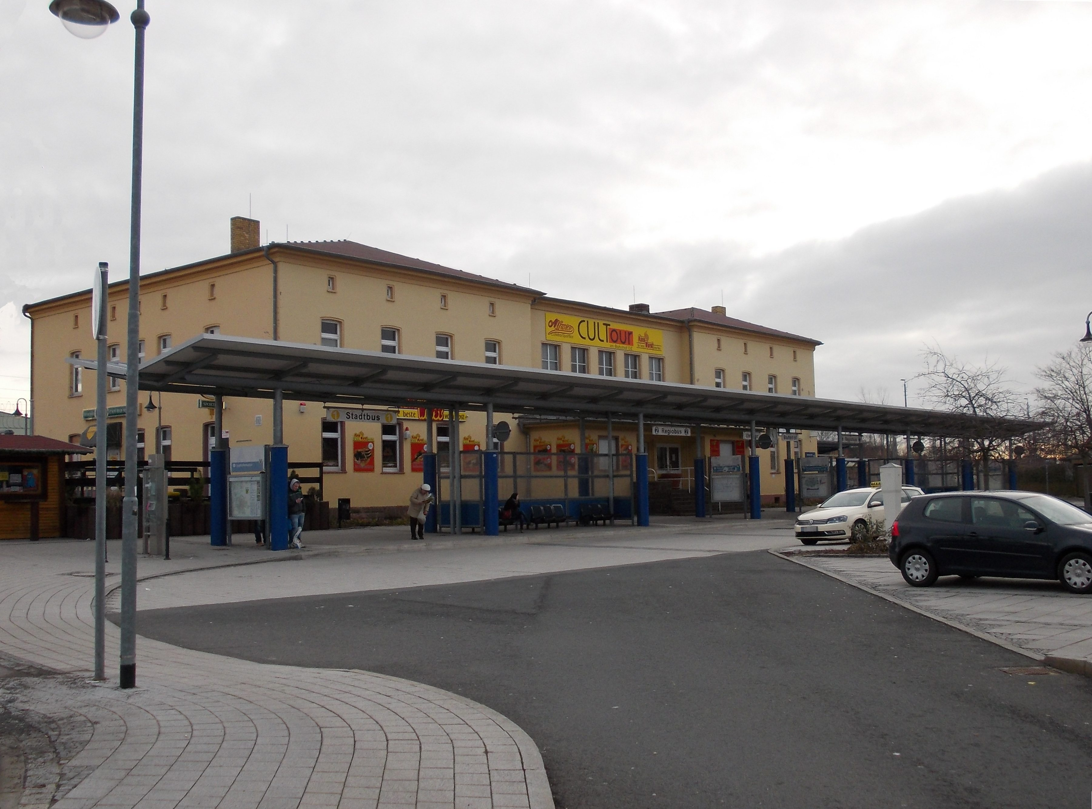 Lower train station and bus station in Delitzsch (Nordsachsen district, Saxony)